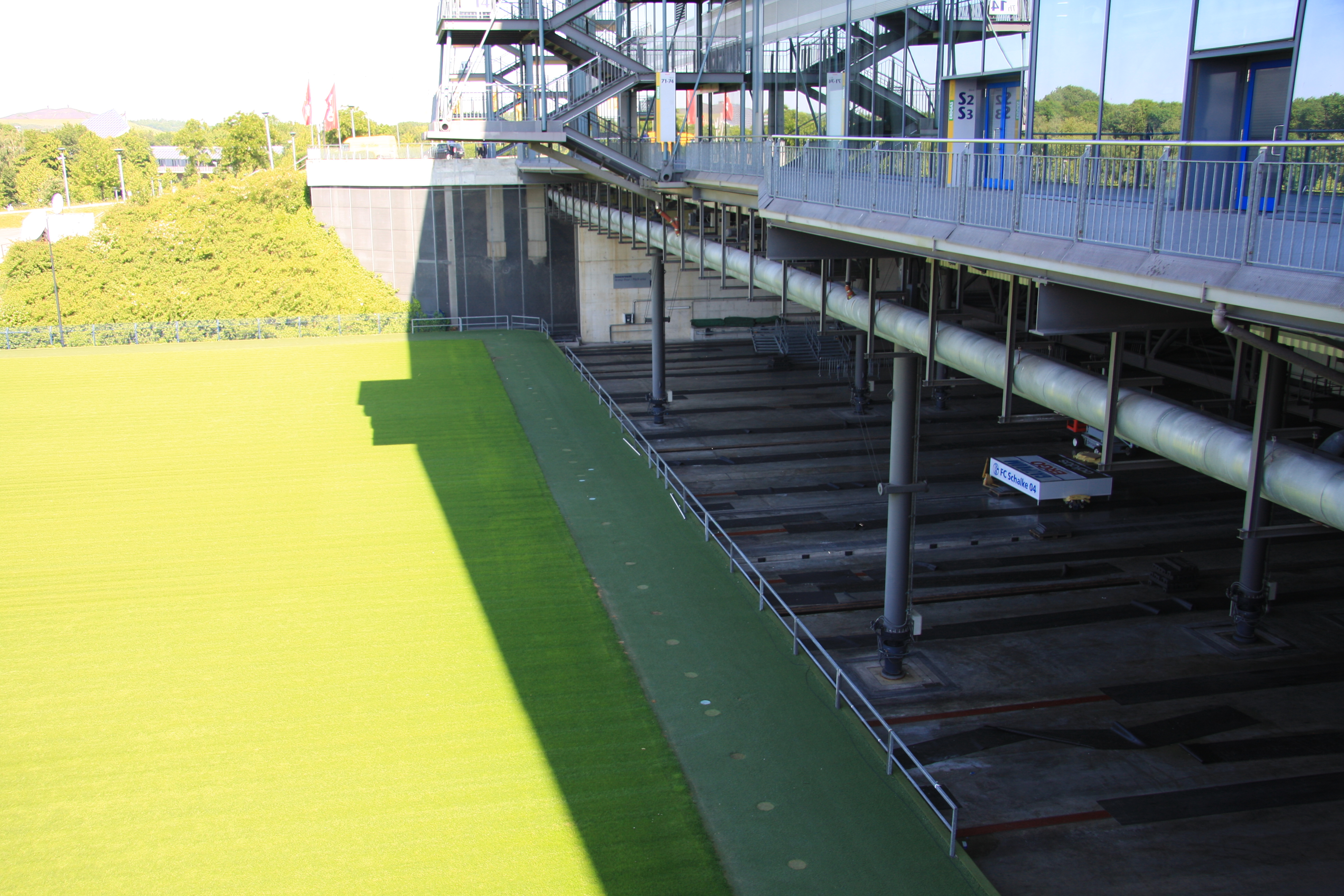 Arena AufSchalke, the slide out pitch outside the stadium unterneath the southern block